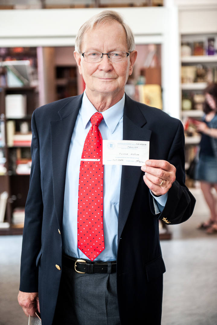 Tunne Kelam posing with his object that will be digitised at the Europeana 1989 roadshow in Warsaw, Poland.